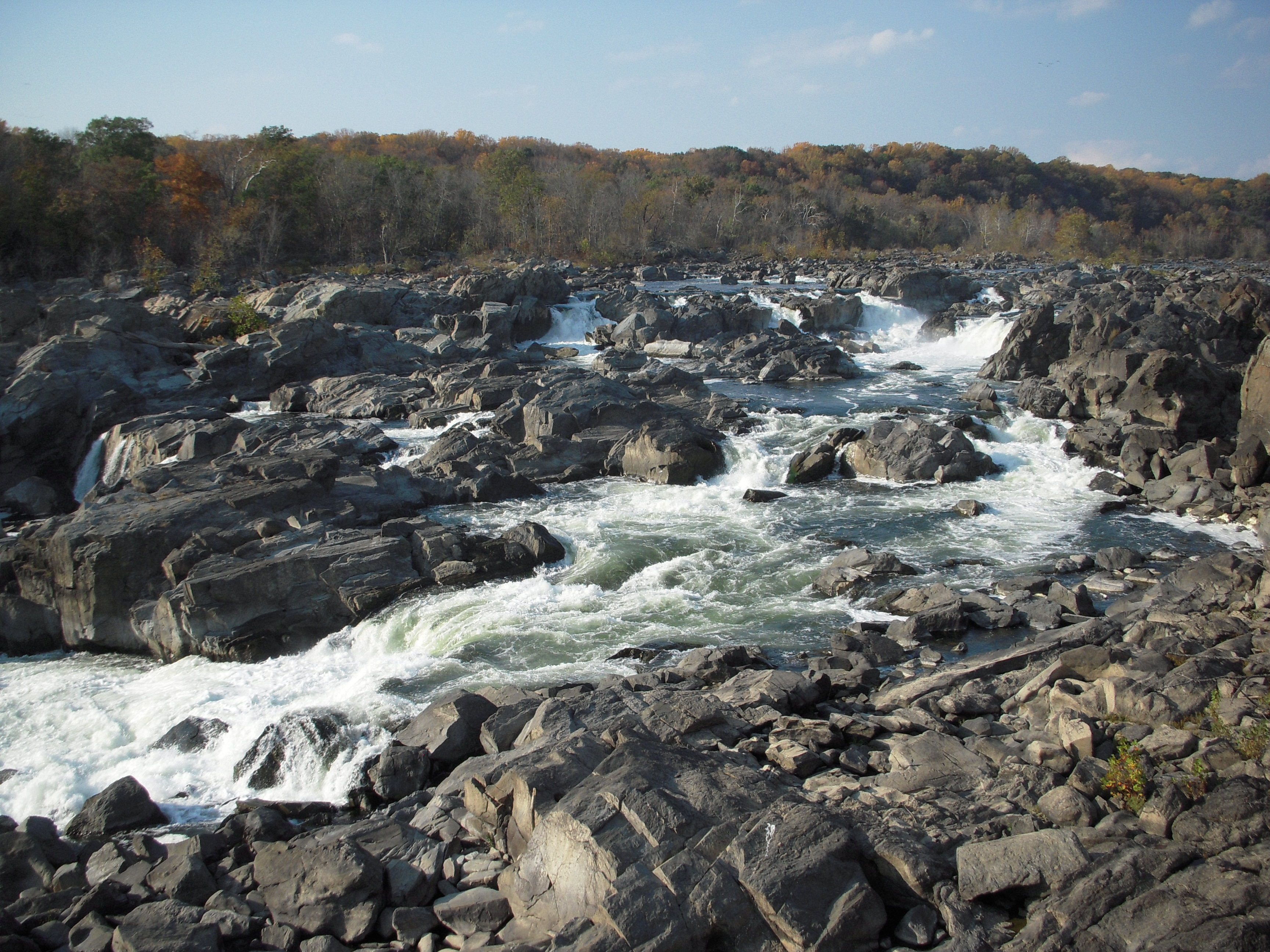 Waterfalls on the Potomac River(USA)